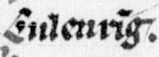 An excerpt from folio 29v of Lat. 4126 (the Chronicle of the Kings of Alba). The excerpt refers to Cuilén mac Illuilb, King of Alba (died 971).